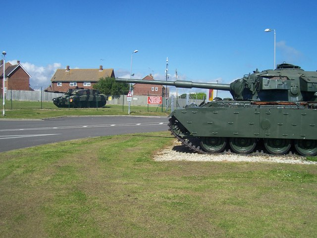 Lulworth Camp : Tanks and Entrance Tanks greet you as you enter Lulworth Camp AFV Gunnery School